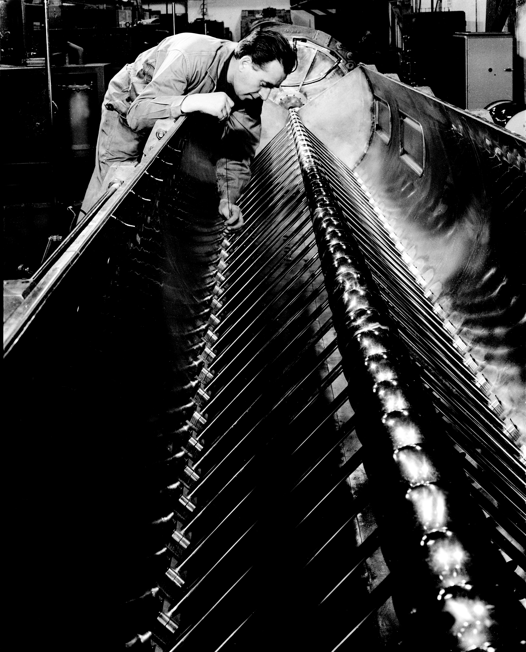 Linac 1 at CERN: internal view of Tank 2, showing the drift tubes